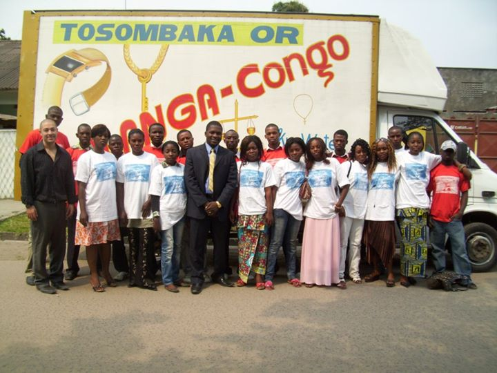 Malanga standing with employees of his business Malanga Congo.